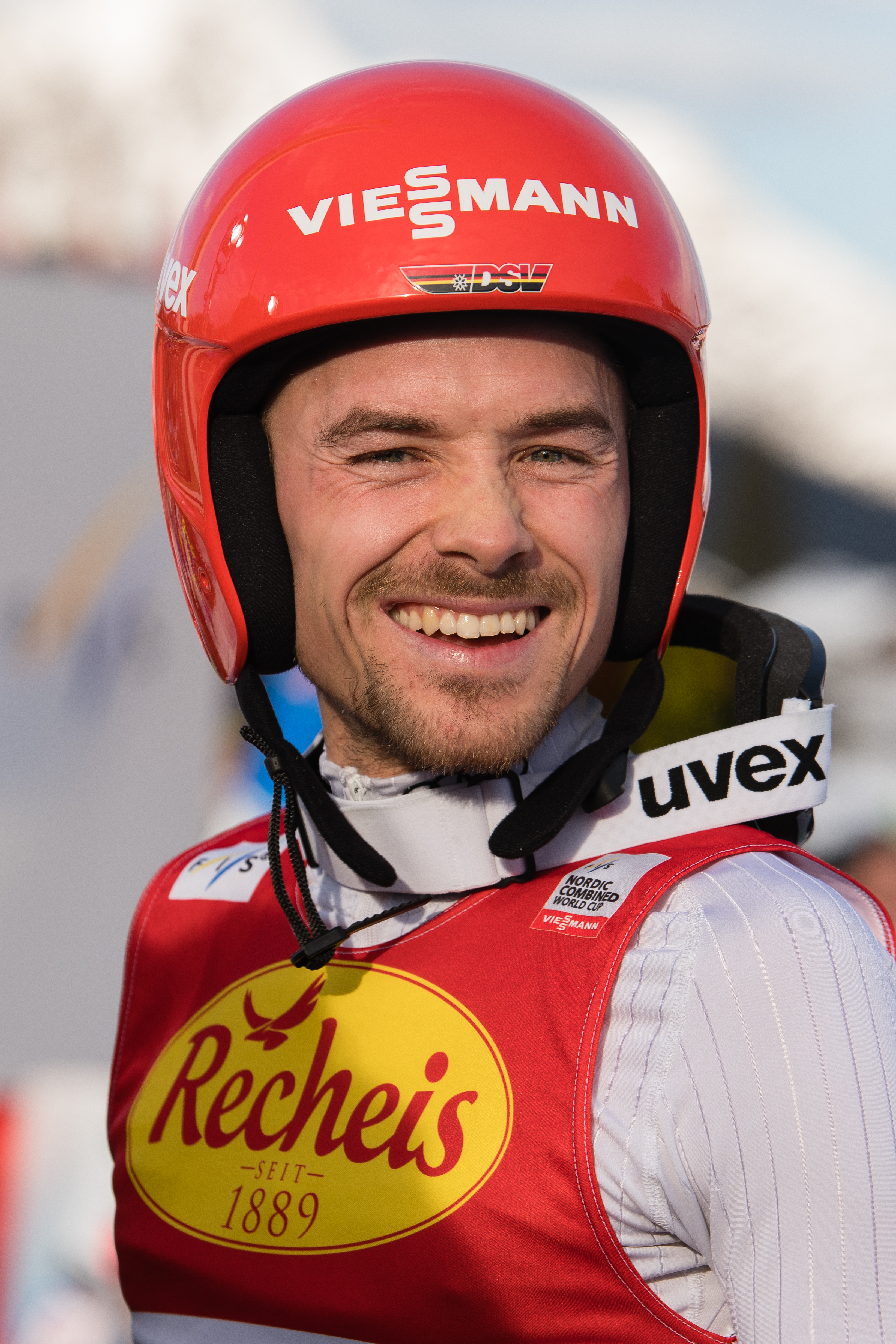 Seefeld-Triple 2018, first day January 26th. Picture shows Fabian Riessle